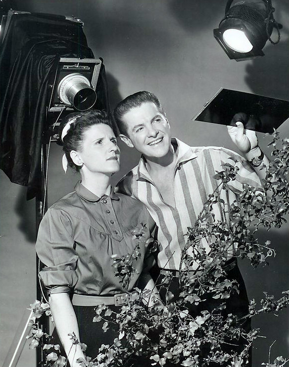 Publicity photo of Bob Cummings and Ann B. Davis from the television program The Bob Cummings Show.